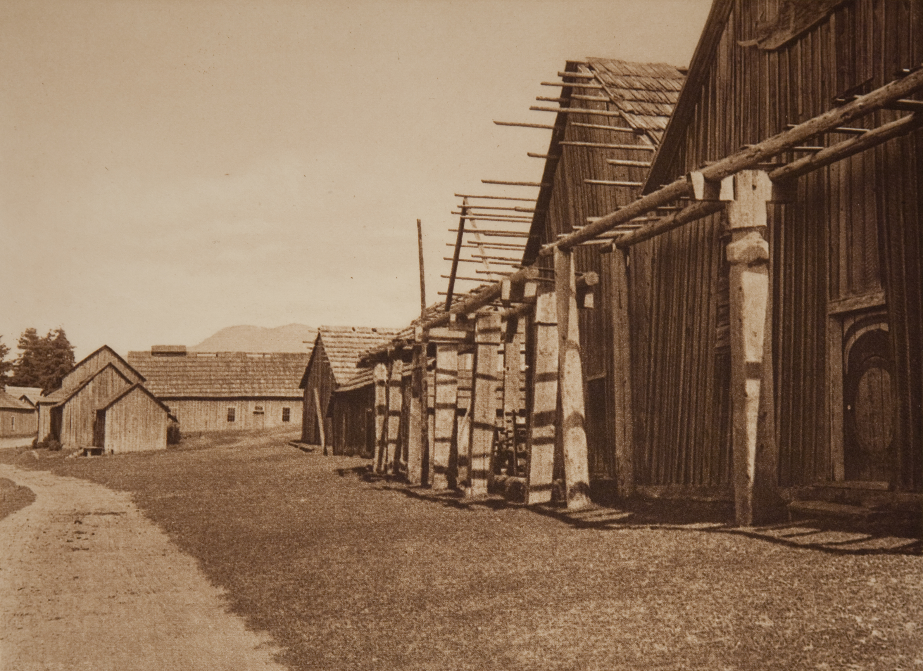 Title: Qamutsun Village - Cowichan Artist: Edward Sheriff Curtis Artist Bio: American, 1868 - 1952 Creation Date: 1912 Process: photogravure Credit Line: Gift of Jo and Howard Weiner Accession Number: 2007.001.057